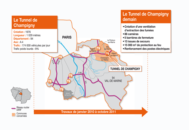 Carte travaux champigny